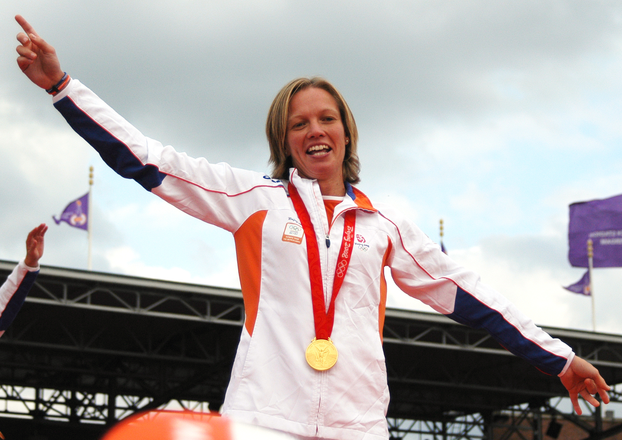 Marilyn Agliotti at the Olympic welcome in the Olympic Stadium in Amsterdam, the Netherlands.